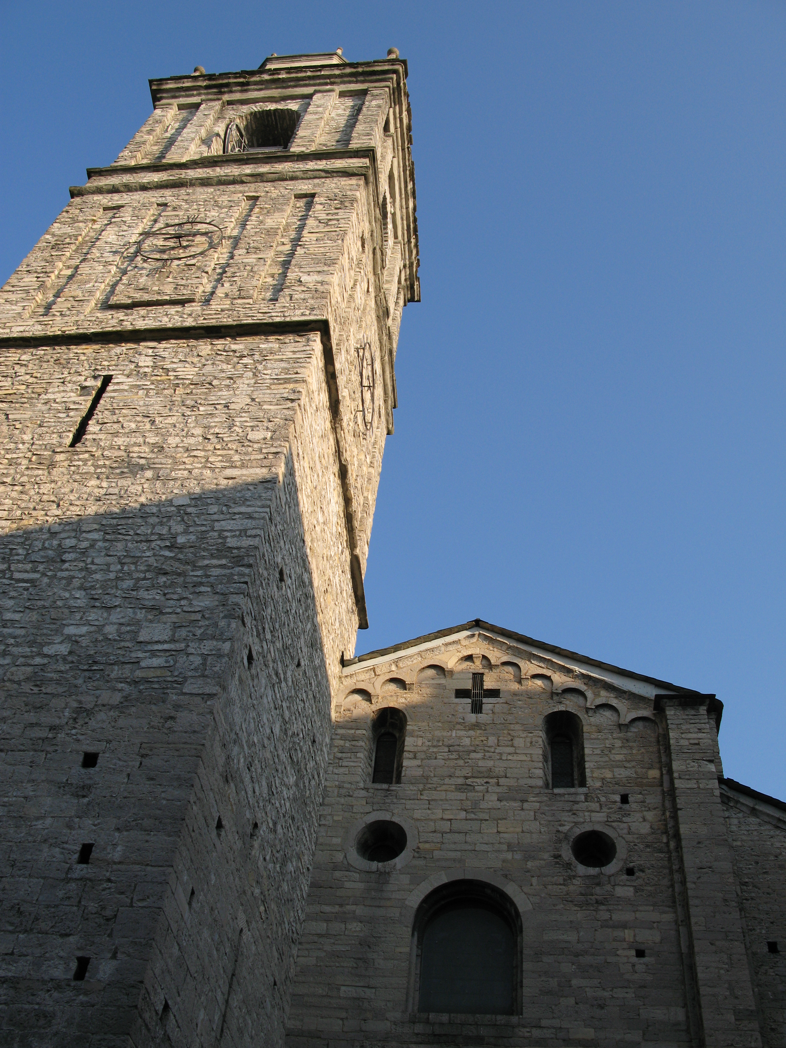 Saint Jack's church in Bellagio, Italy